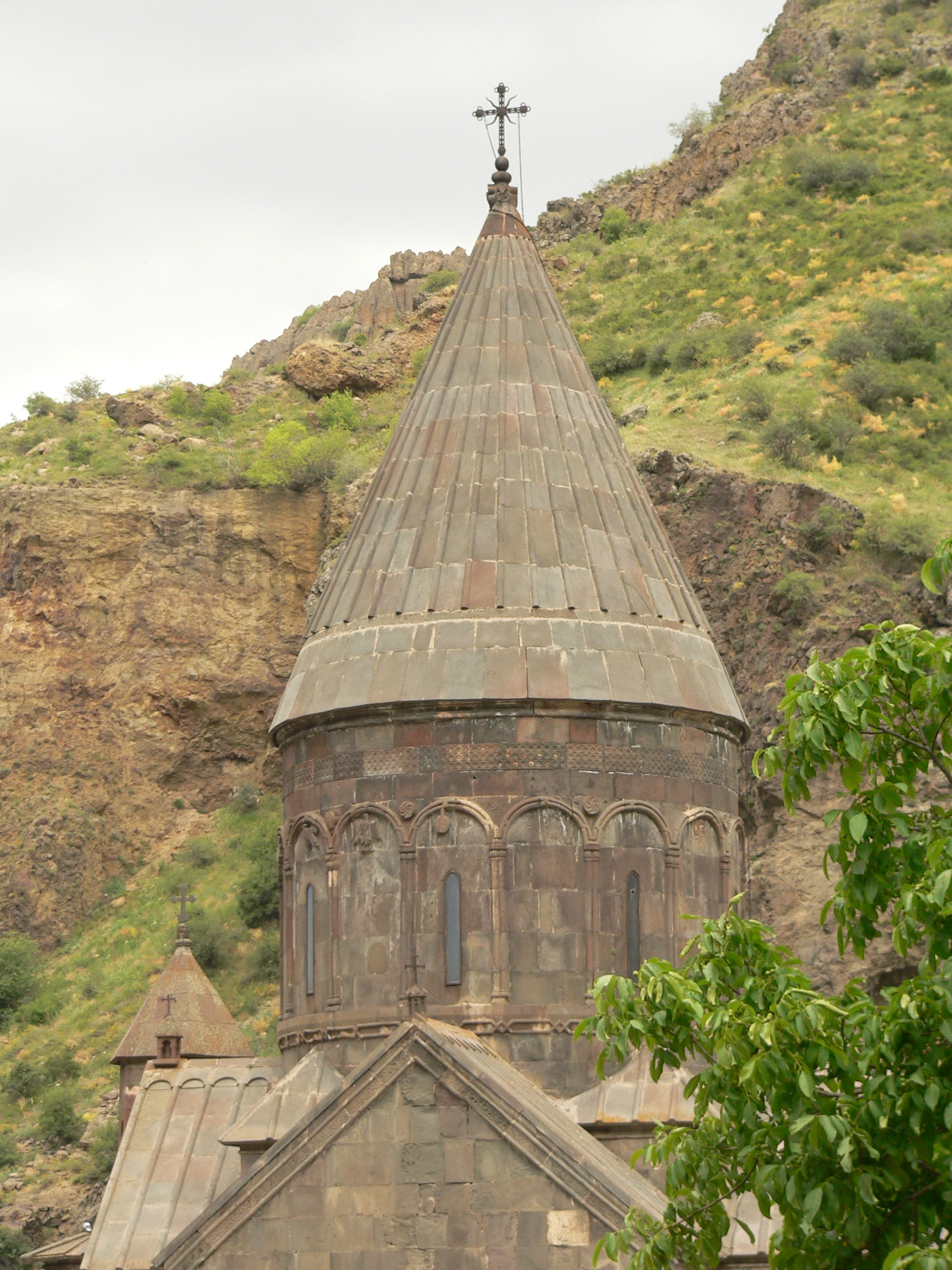 Cupola of Geghardavank. Geghard, Armenia.